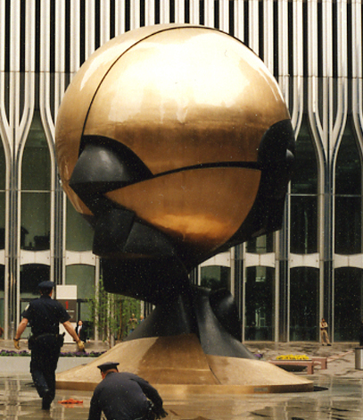 1 World Trade Center (North Tower) and WTC Sphere (sculpture by Fritz Koenig) as seen from Austin Tobin Plaza.